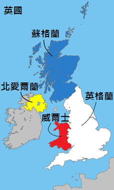 Divisions of the United Kingdom (Chinese version)